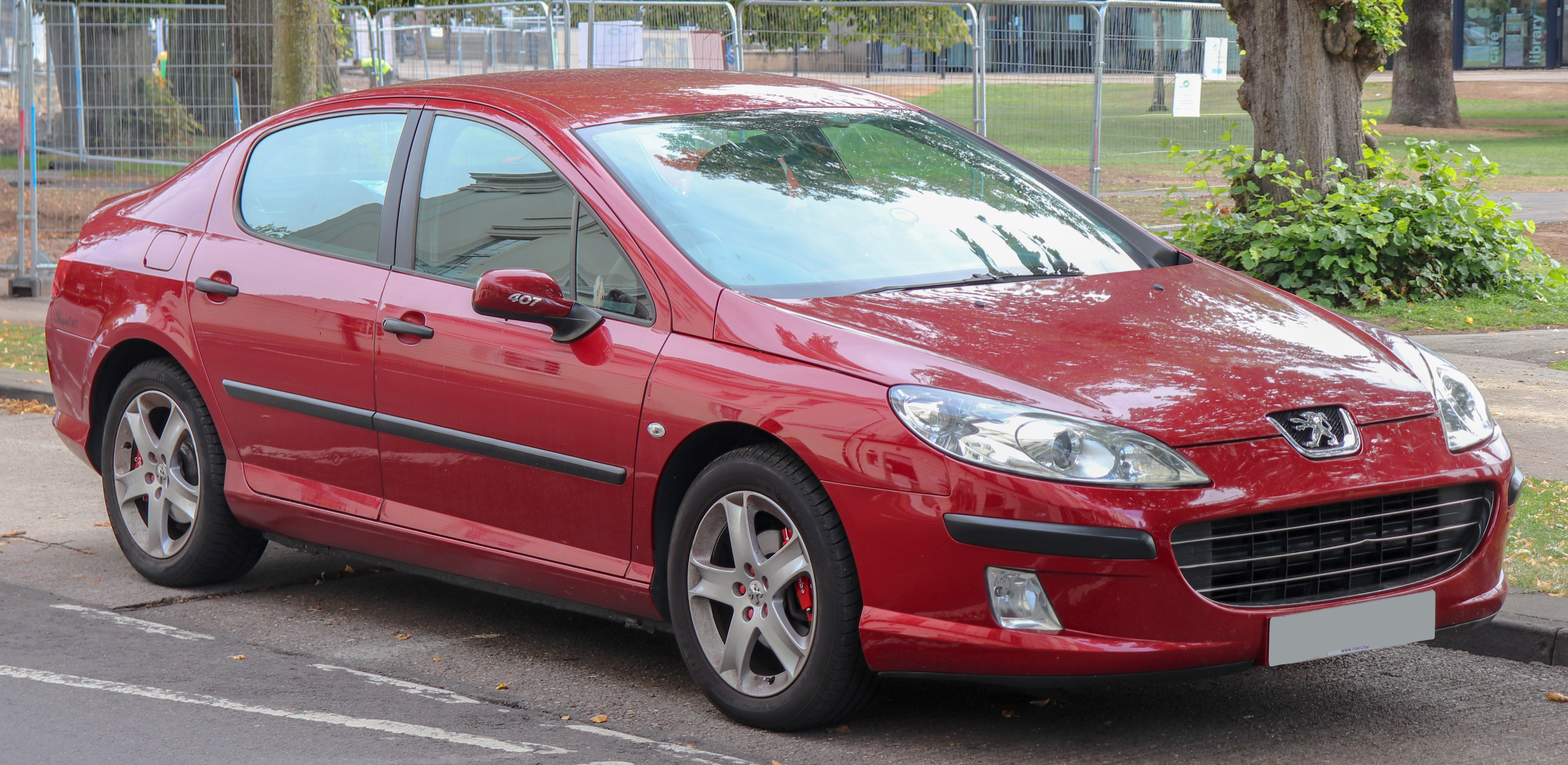 2006 Peugeot 407 S HDi Saloon 1.6 Front Taken in Leamington Spa